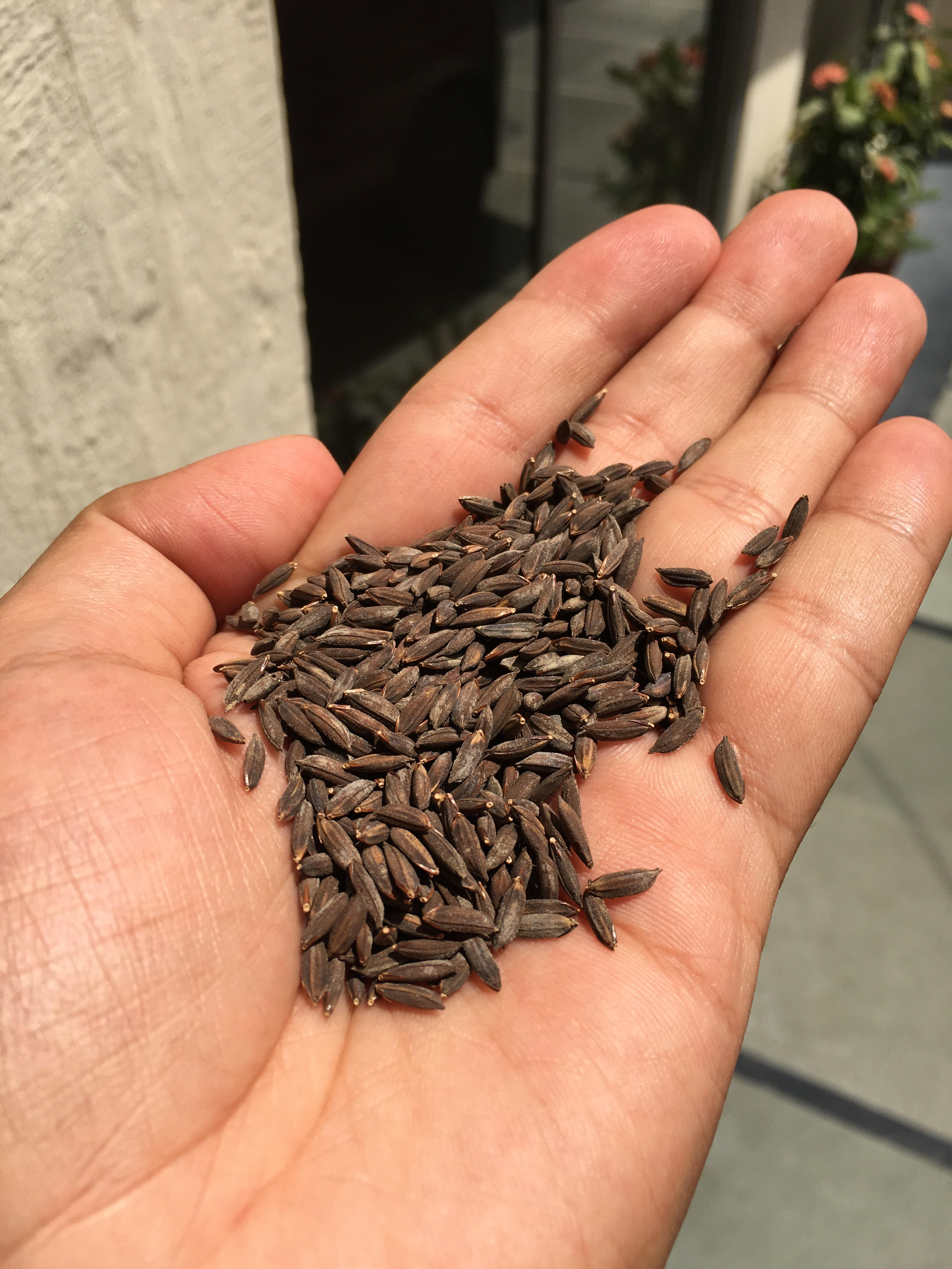 The photographs shows the whole grain of the Kalanamak, the outer husk of which is black in colour.